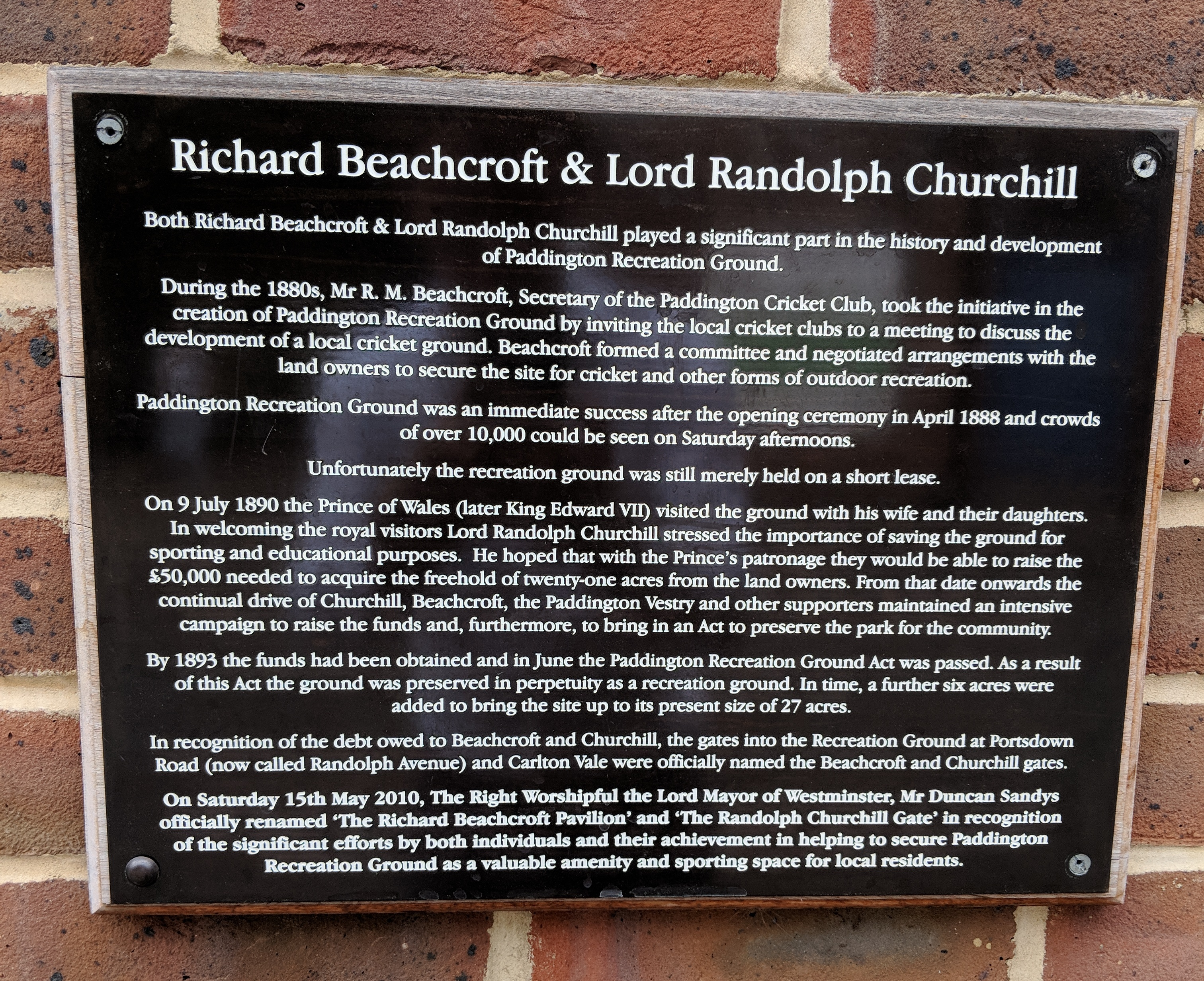 History of Paddington Rec